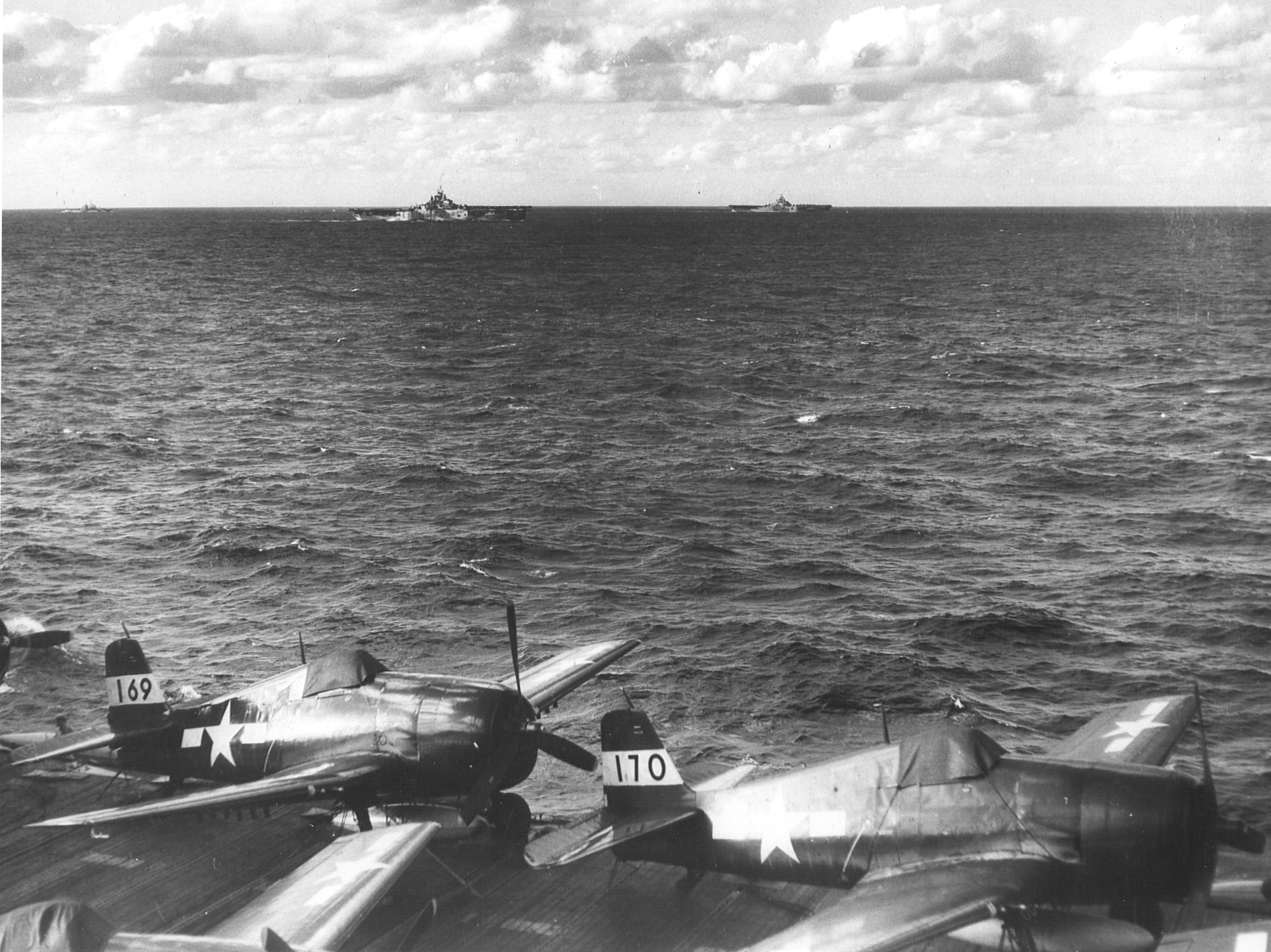 U.S. Navy Grumman F6F-5 Hellcats of Fighting Squadron 81 (VF-81) are parked on the flight deck of the aircraft carrier USS Wasp (CV-18). Note that the individual aircraft numbers have been incorporated into the geometric air group identification symbol (a horizontal white stripe). In the background to the left is USS Bennington (CV-20) and to the right is USS Hornet (CV-12).